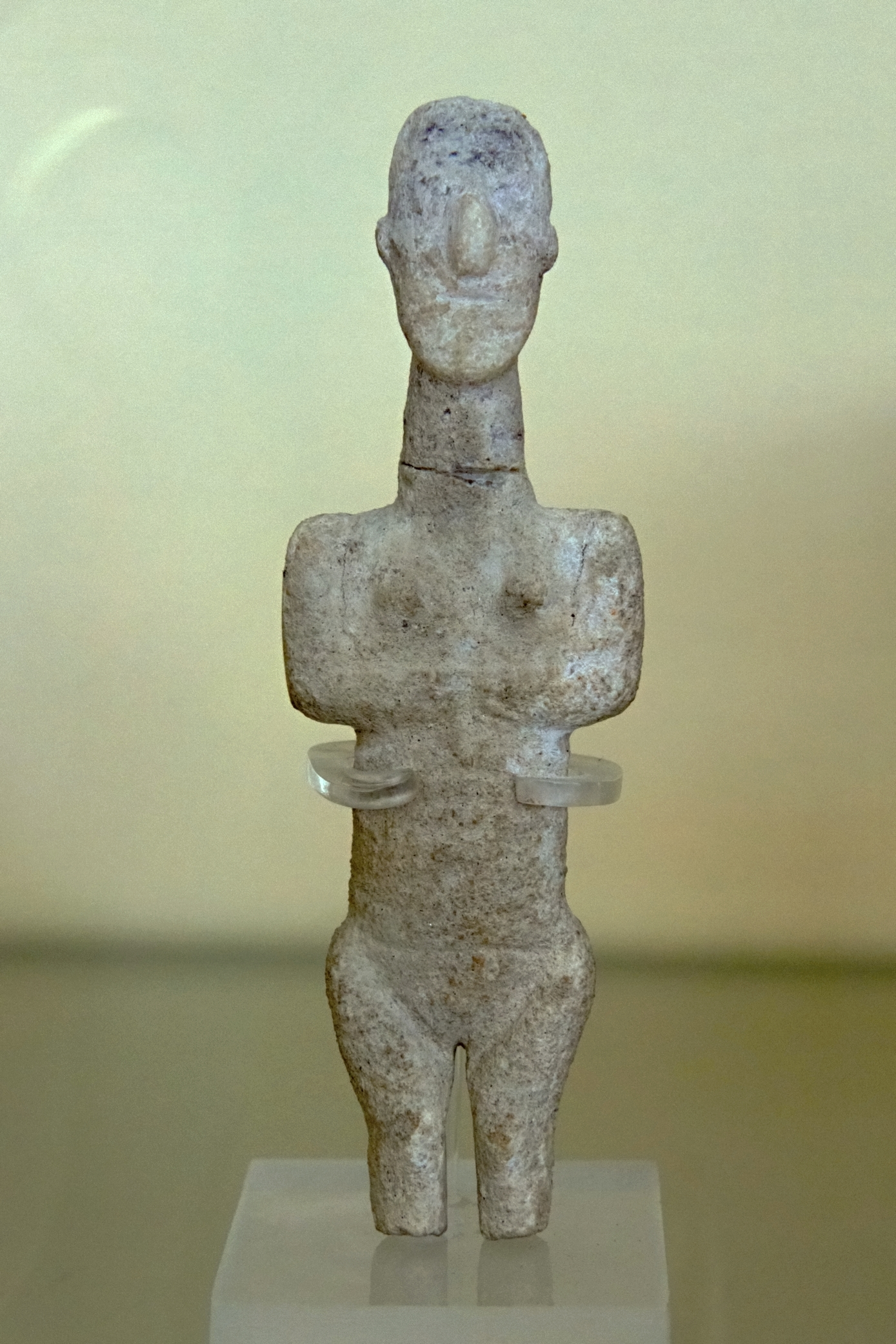 Cycladic female figurine of pre- canonical type, Plastiras variety. Early Bronze Age, EC I – II, 3000 - 2500 BC. Finds in the cemetery of Plastiras bay of Naoussa, Paros. They are therefore among the finds, which gave rise to the name of this variety by place of origin. Archaeological museum of Paros.